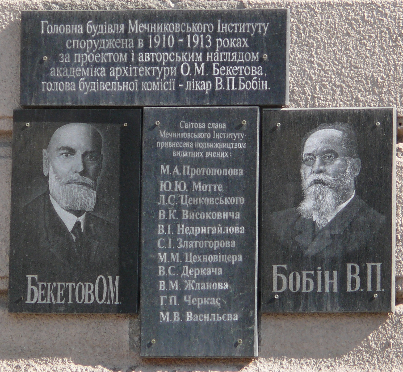 A.N.Beketov and Bobin memorial tablet, Kharkov